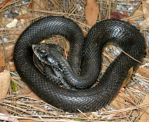 Eastern Hognose Snake, Heterodon platirhinos, dark phase. Location: Holly Shelter Gamelands, Pender County, North Carolina, United States